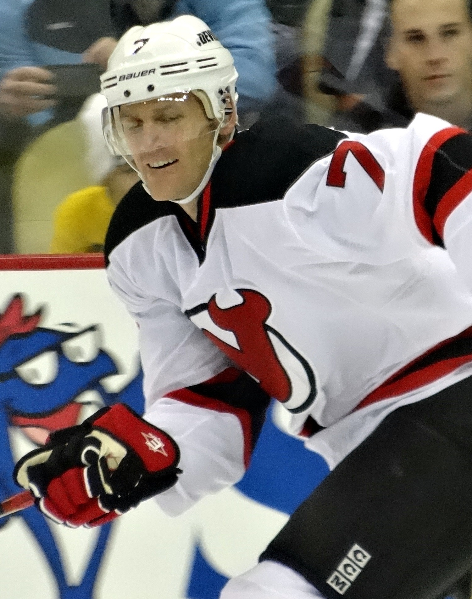 New Jersey Devils defenseman Henrik Tallinder in a February 2, 2013 game against the Consol Energy Center in Pittsburgh, PA.